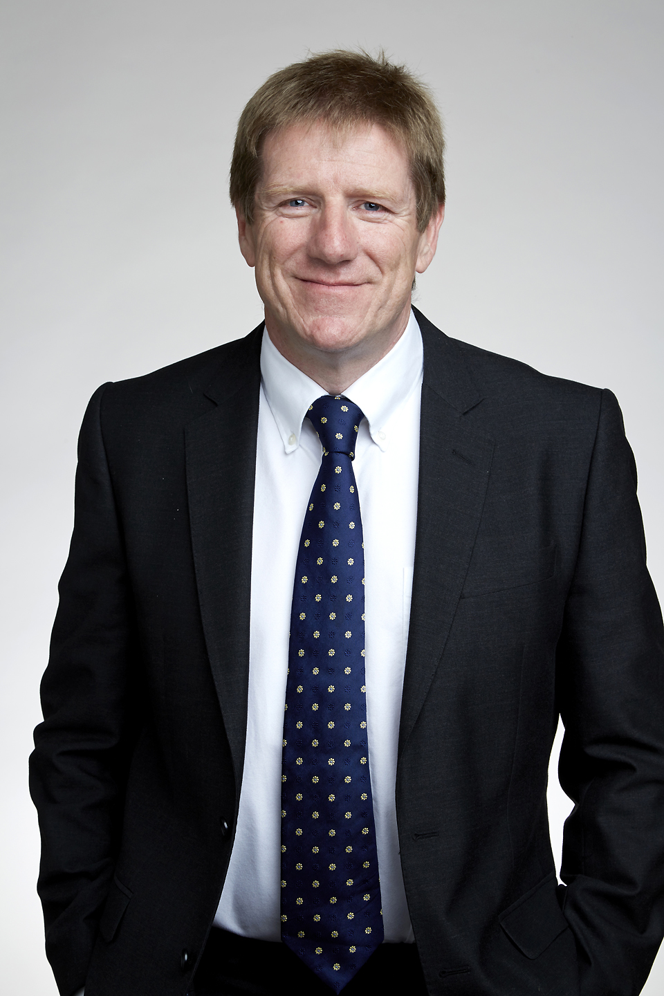 Russell Edward Morris (born June 8, 1967) FRS is a Professor of Structural and Materials Chemistry at the University of St Andrews. Attribution: The Royal Society